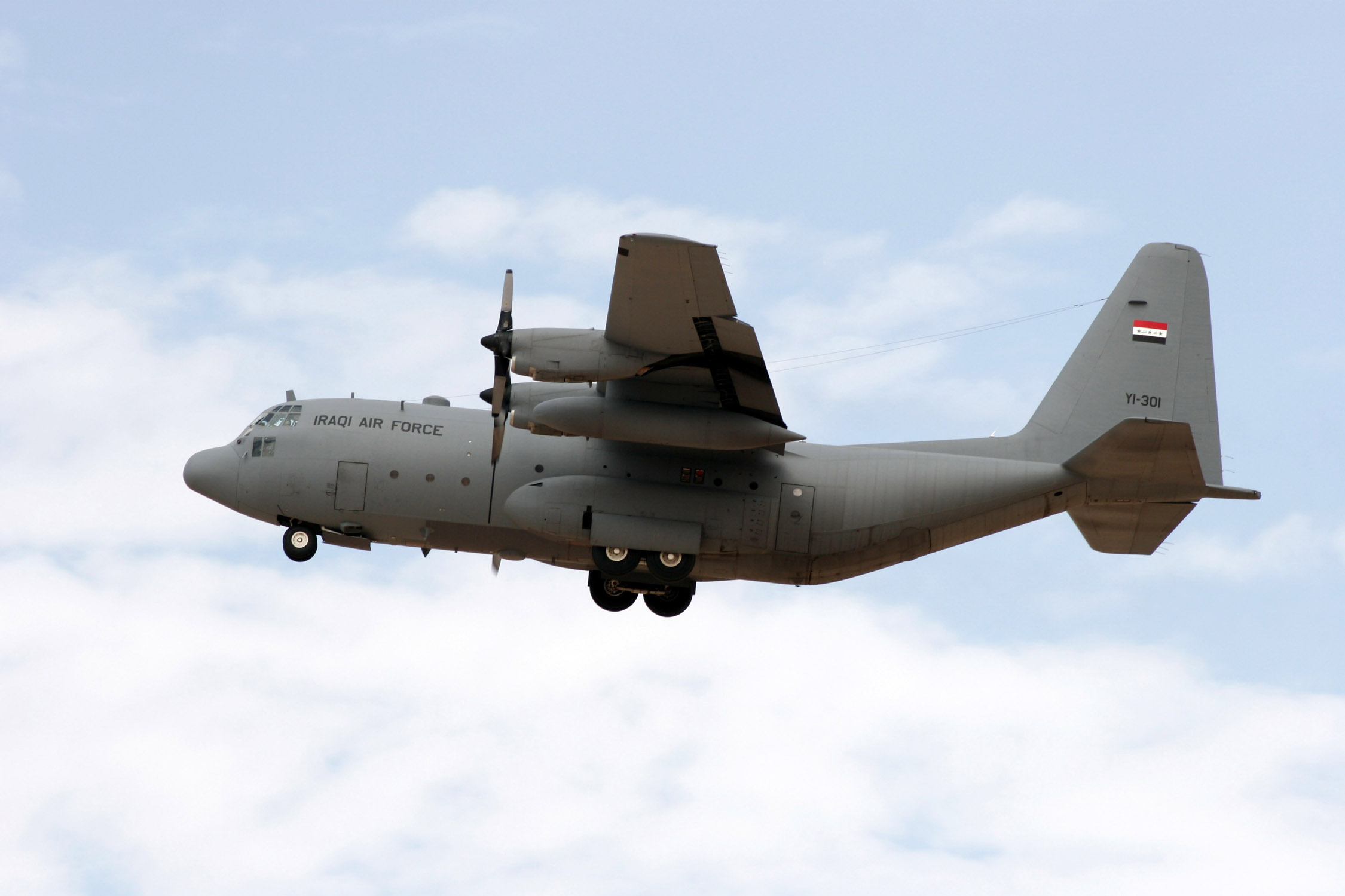 AL ASAD, Iraq -- An Iraqi Air Force C-130 cargo plane soars the Iraqi skies Feb. 24 while its crew continues to hone their flying skills. Iraq received three C-130s in January from the U.S. to incorporate airlift capabilities into their air force.